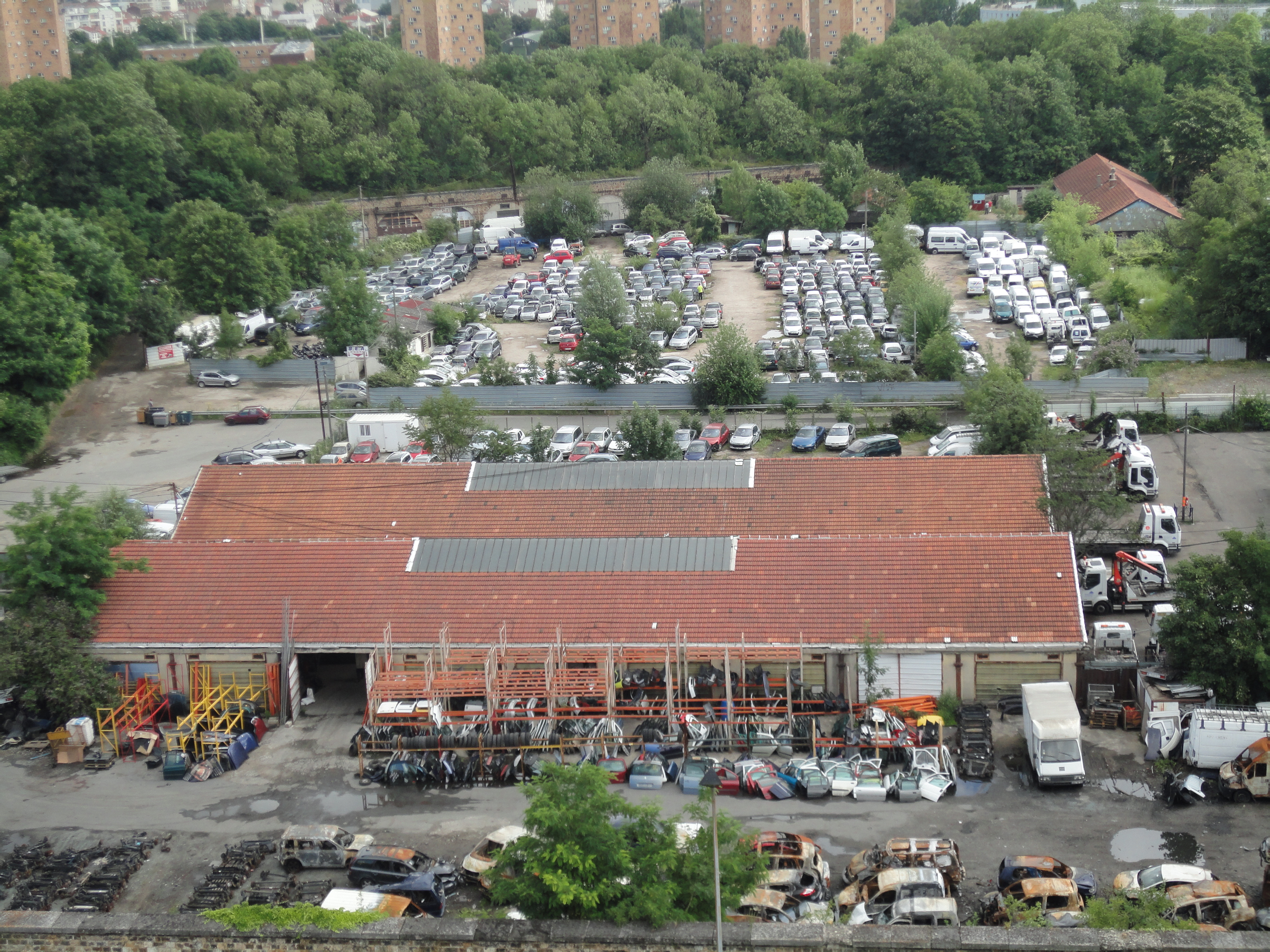 Aerial view of Aubervilliers car's wrecking yard on July 2012